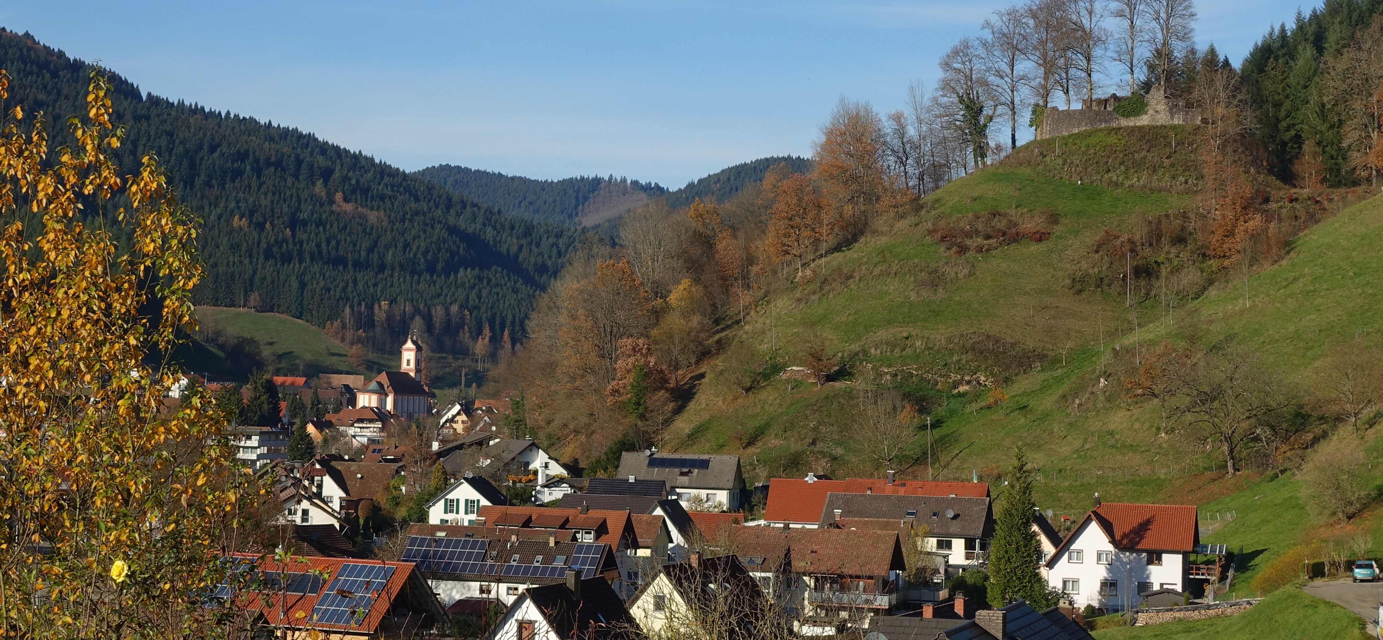 Oberwolfach St. Bartholomäus:Viw from far (from south) with castle